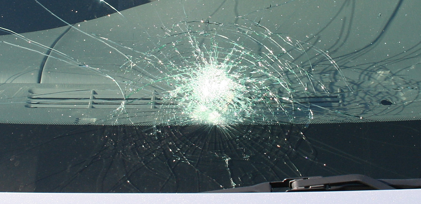 Windshield with "spiderweb" cracking. Photo shot by Derek Jensen (Tysto), 2005-November-19